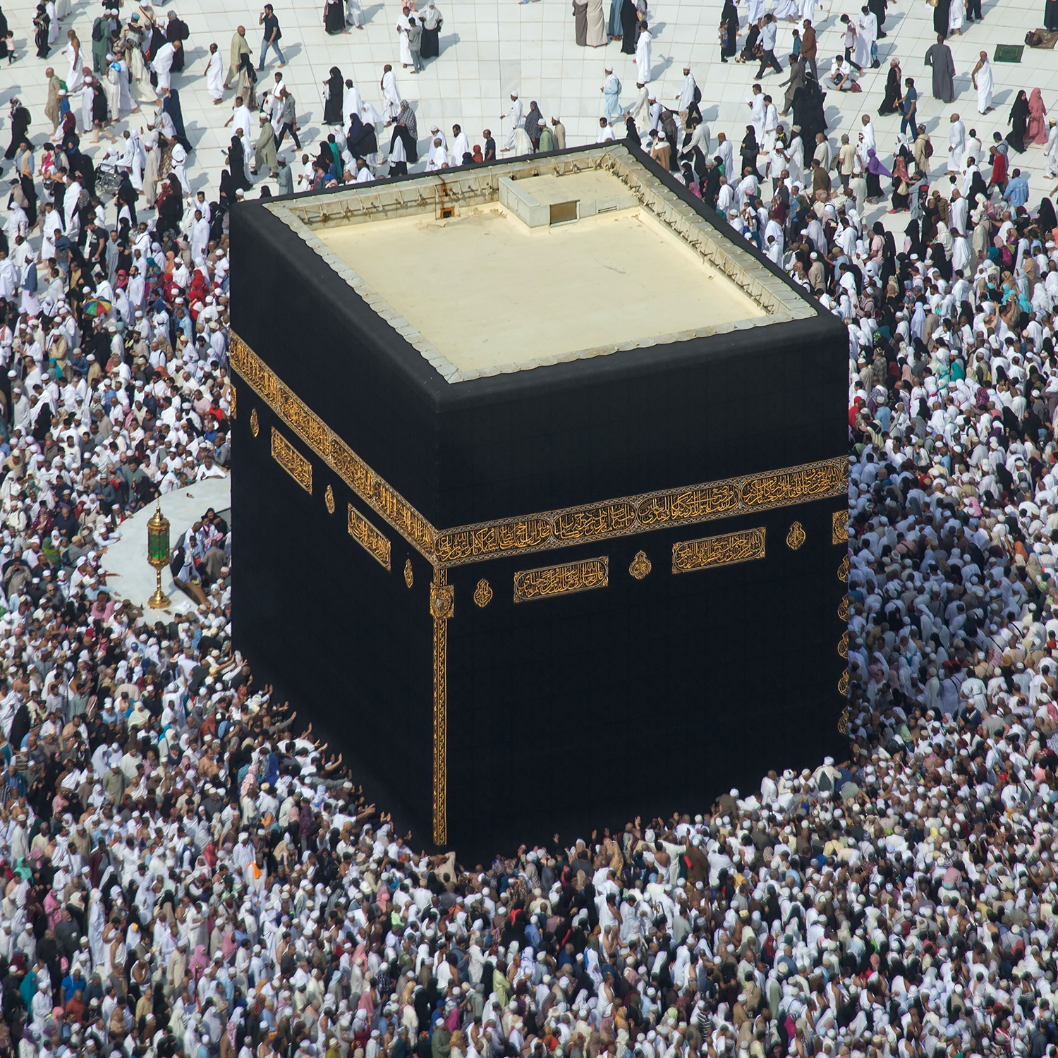 The Kaaba in Makkah